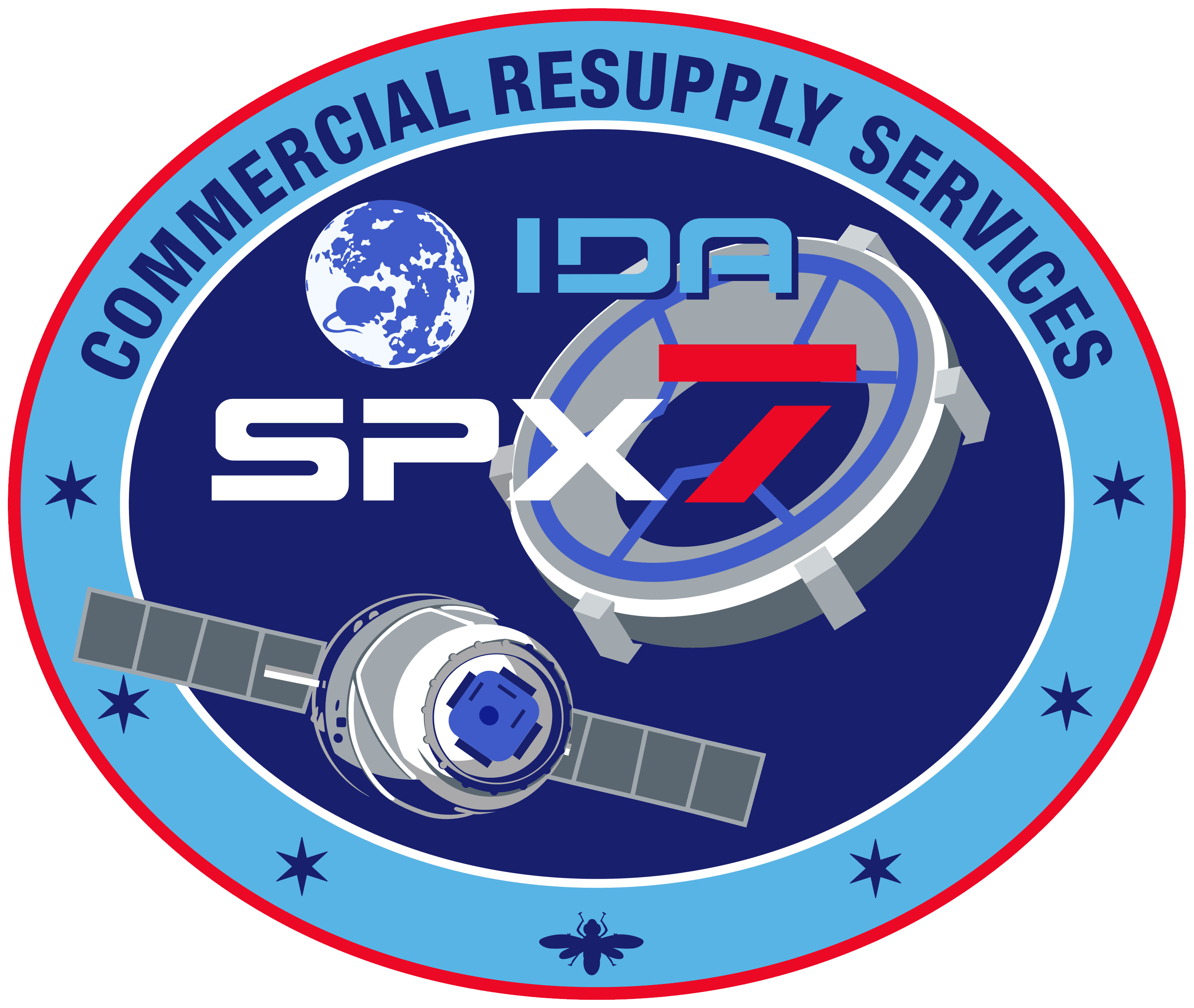 NASA's insignia for SpaceX's Commercial Resupply Services-7 (CRS-7) mission to the International Space Station (SpX-7)